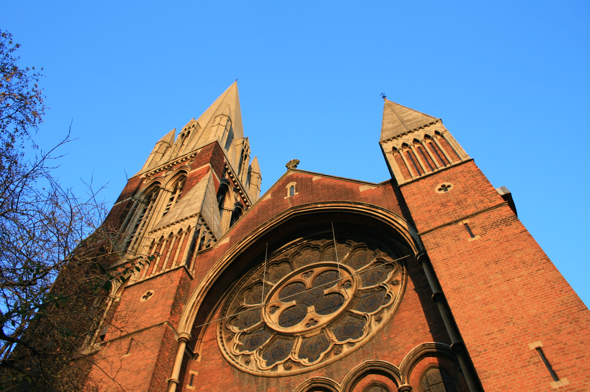 St Augustine's Church in Kilburn, London, UK - architect: John Loughborough Pearson, 1880